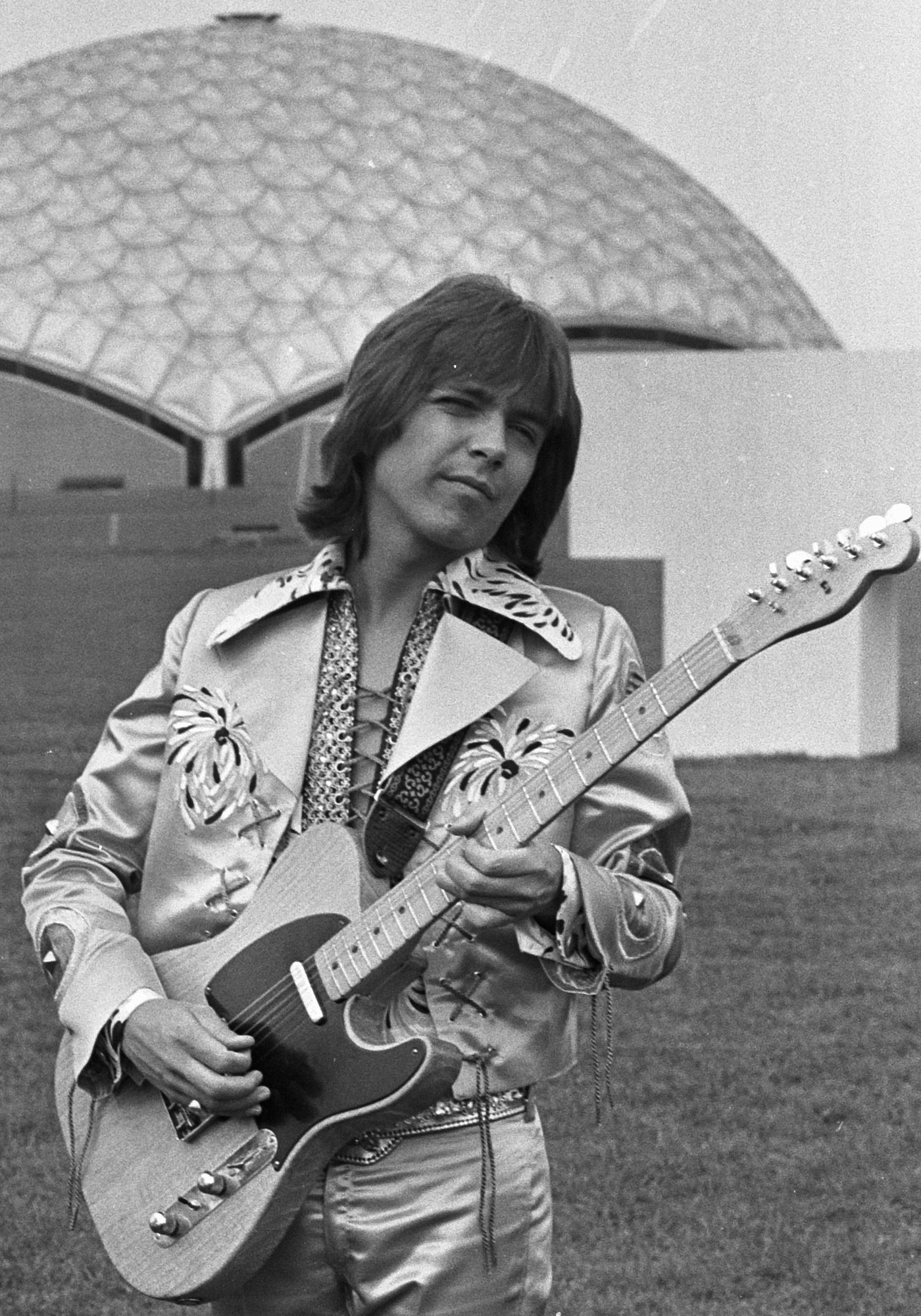 American pop/TV star David Cassidy during a TV recording.